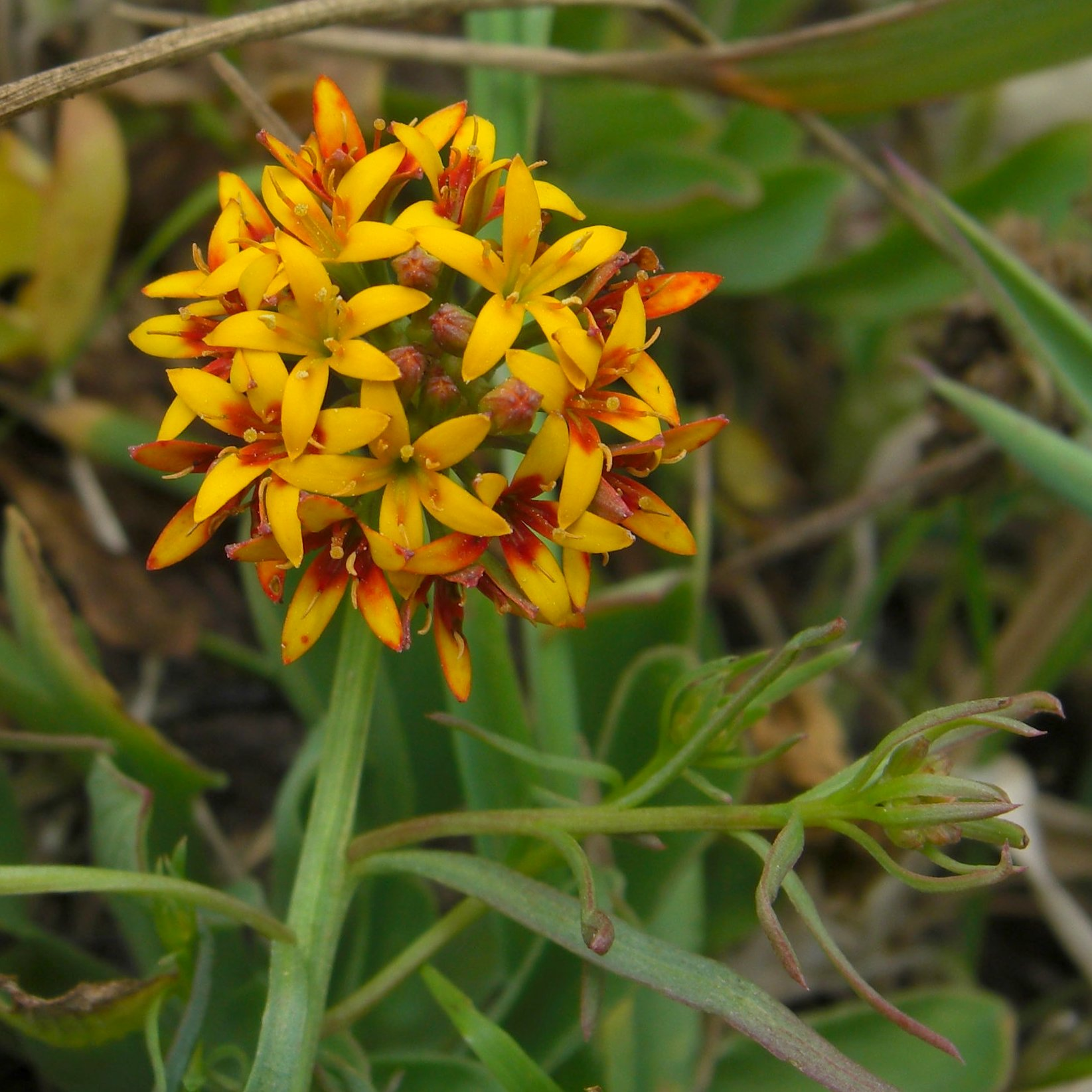 This is an extremely common and widespread native weed, growing along the coast all the way down to the archipelago of Tierra del Fuego and into high elevations in the Andes. It is in the sandalwood family (Santalaceae).